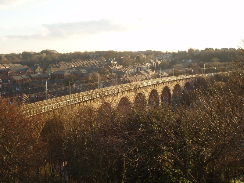 The East Coast Main Line arrives over the viaduct at Durham. Taken by myself, 2005-03-06, CC-by license.